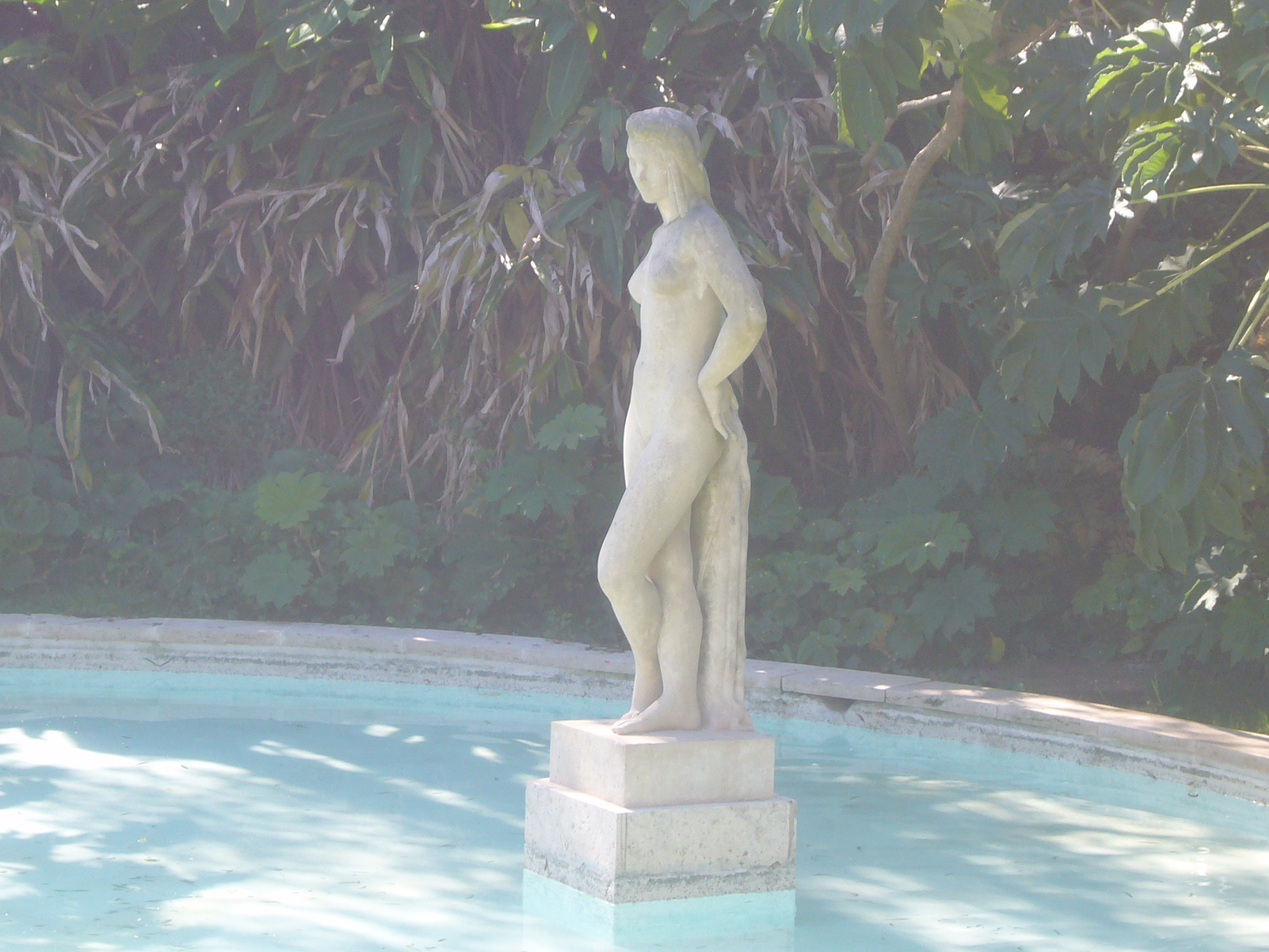 Sculptures in gardens of Palauet Albéniz, Barcelona. "Nu a l'estany". Sculptor: Antoni Casamor d'Espona (1970)